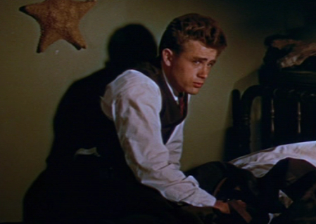 Cropped screenshot of James Dean in the trailer for the film East of Eden